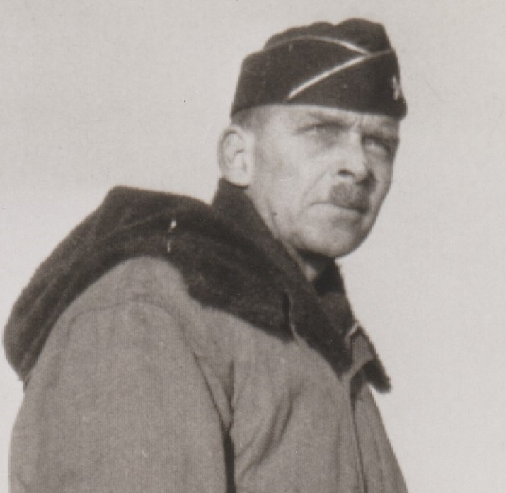 Brigadier General Lloyd E. Jones, Amchitka Island, Alaska.